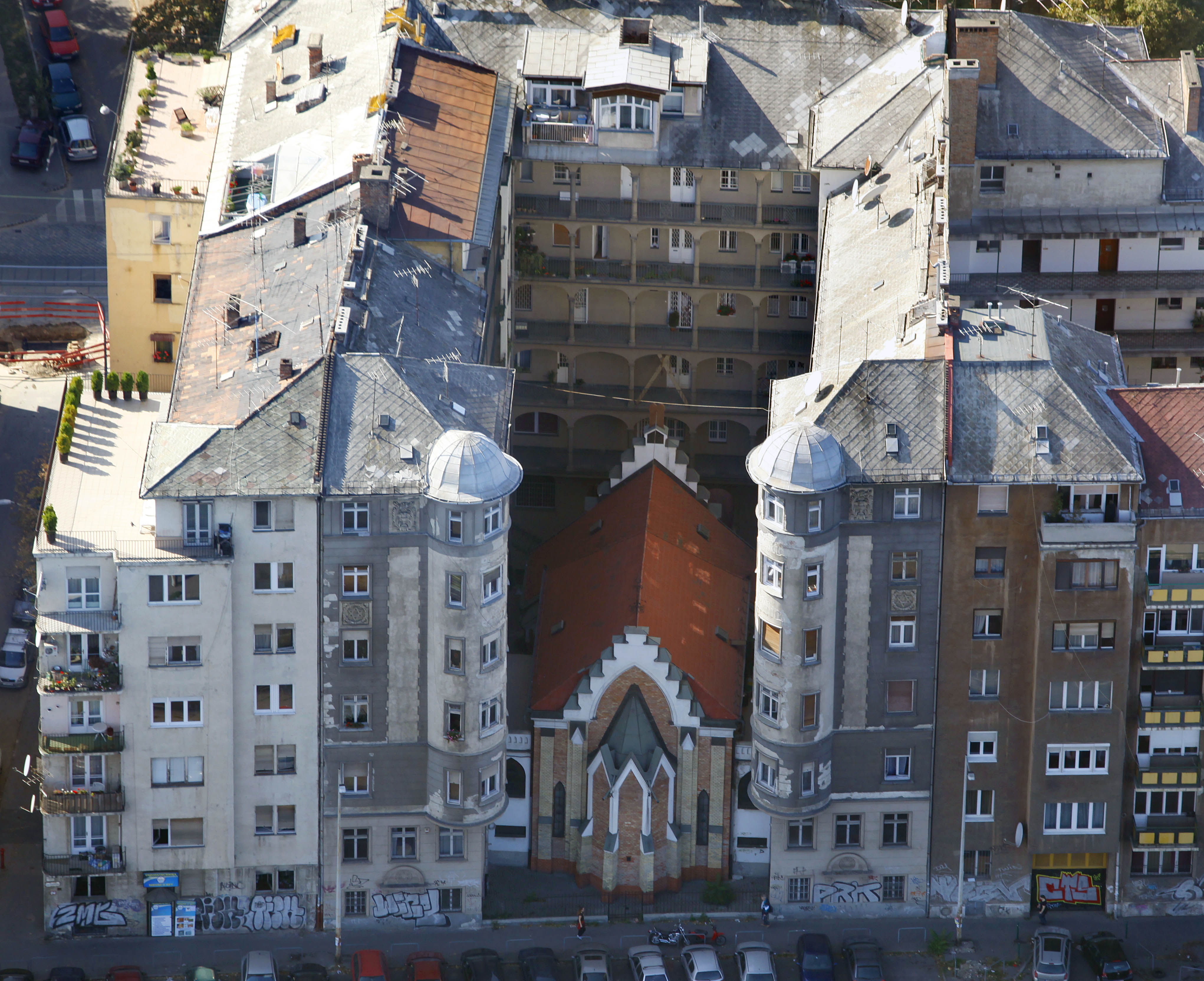 Synagugue, Budapest, Hungary, aerial photography